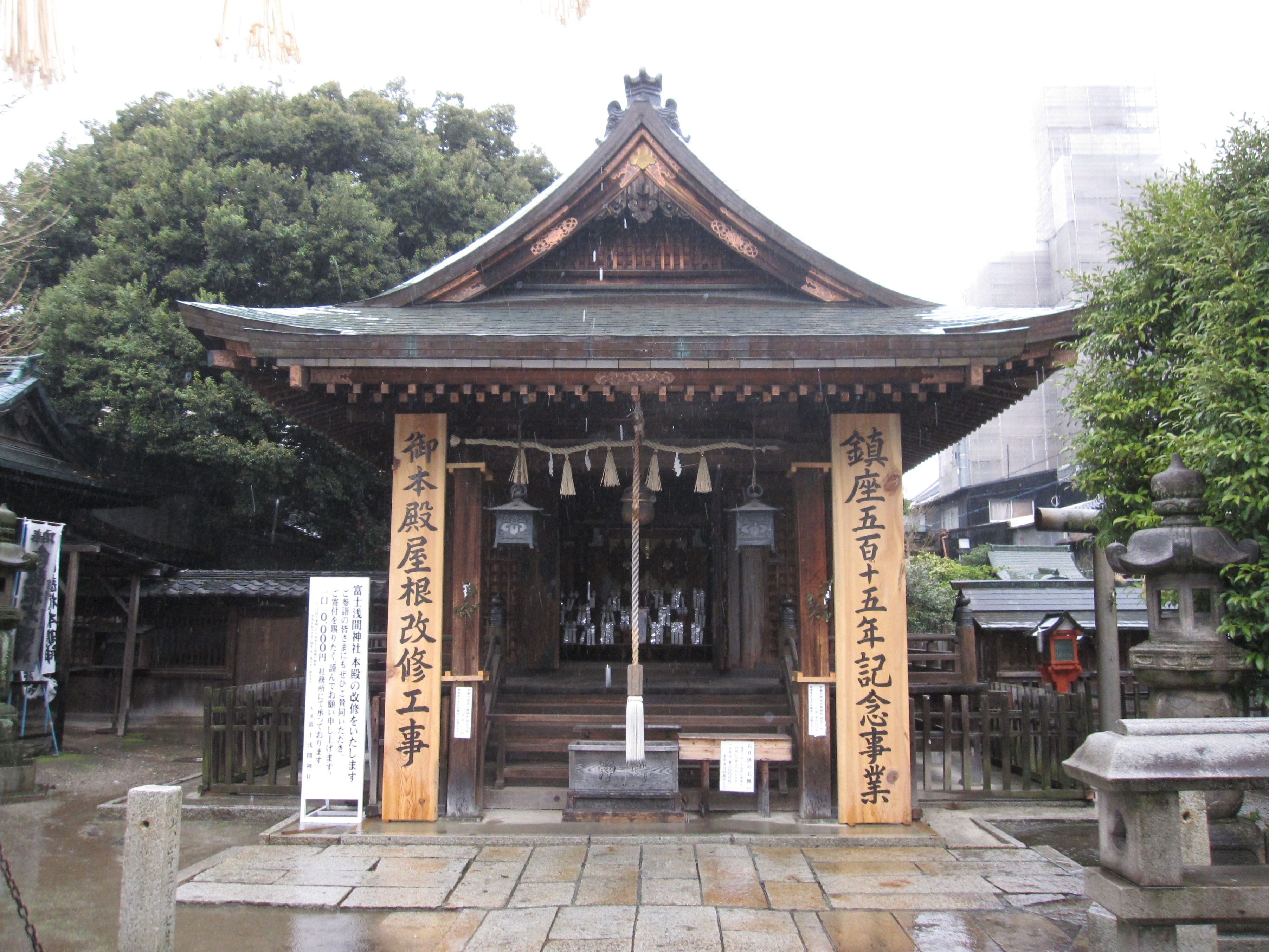 Fuji Sengen Shrine in Naka-ku, Nagoya, Japan.